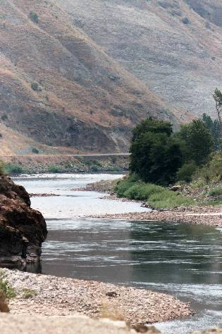 Salmon River Canyon 2004 Photographer: Robbie L. Giles © Taken August 2004 north of Lucille, Idaho. Photo is available for use in any setting.